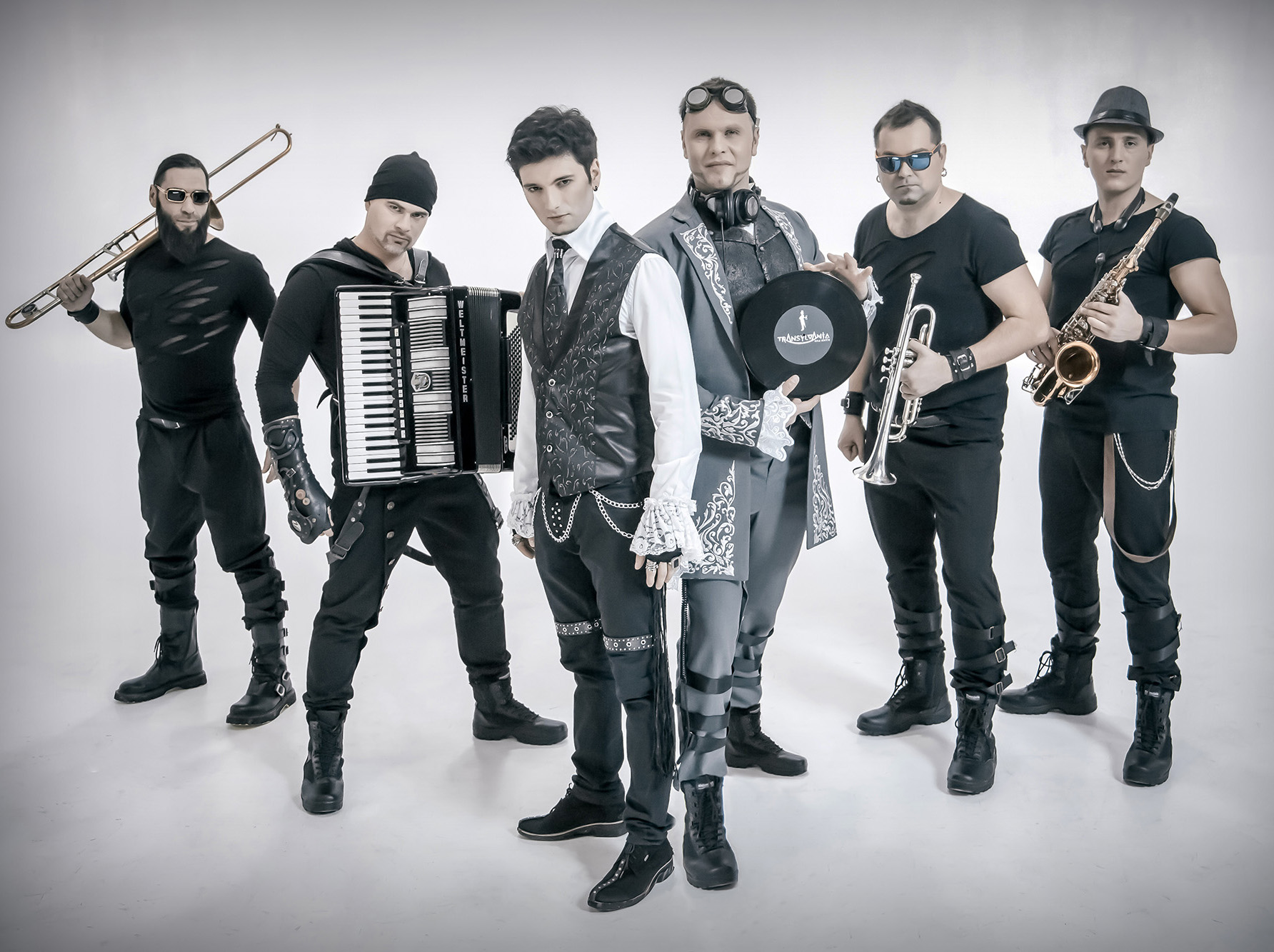 Transylvania Damn Fun band